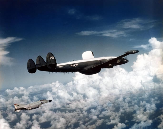 A U.S. Navy Lockheed EC-121M Warning Star (BuNo 143209 ?) of Fleet Air Reconnaissance Squadron 1 (VQ-1) "World Watchers" accompanied by a McDonnell F-4B Phanton II of Fighter Squadron 151 (VF-151) "Vigilantes" from Attack Carrier Air Wing 15 (CVW-15). An EC-121M of VQ-1 was shot down by North Korean Mikoyan-Gurevitch MiG-21s on 15 April 1969, killing all 31 crewmembers. Due to the black radome of the F-4B, the photo was probably taken during the deployment of VF-151 with USS Coral Sea (CVA-43) to Vietnam from 7 December 1964 to 1 November 1965.